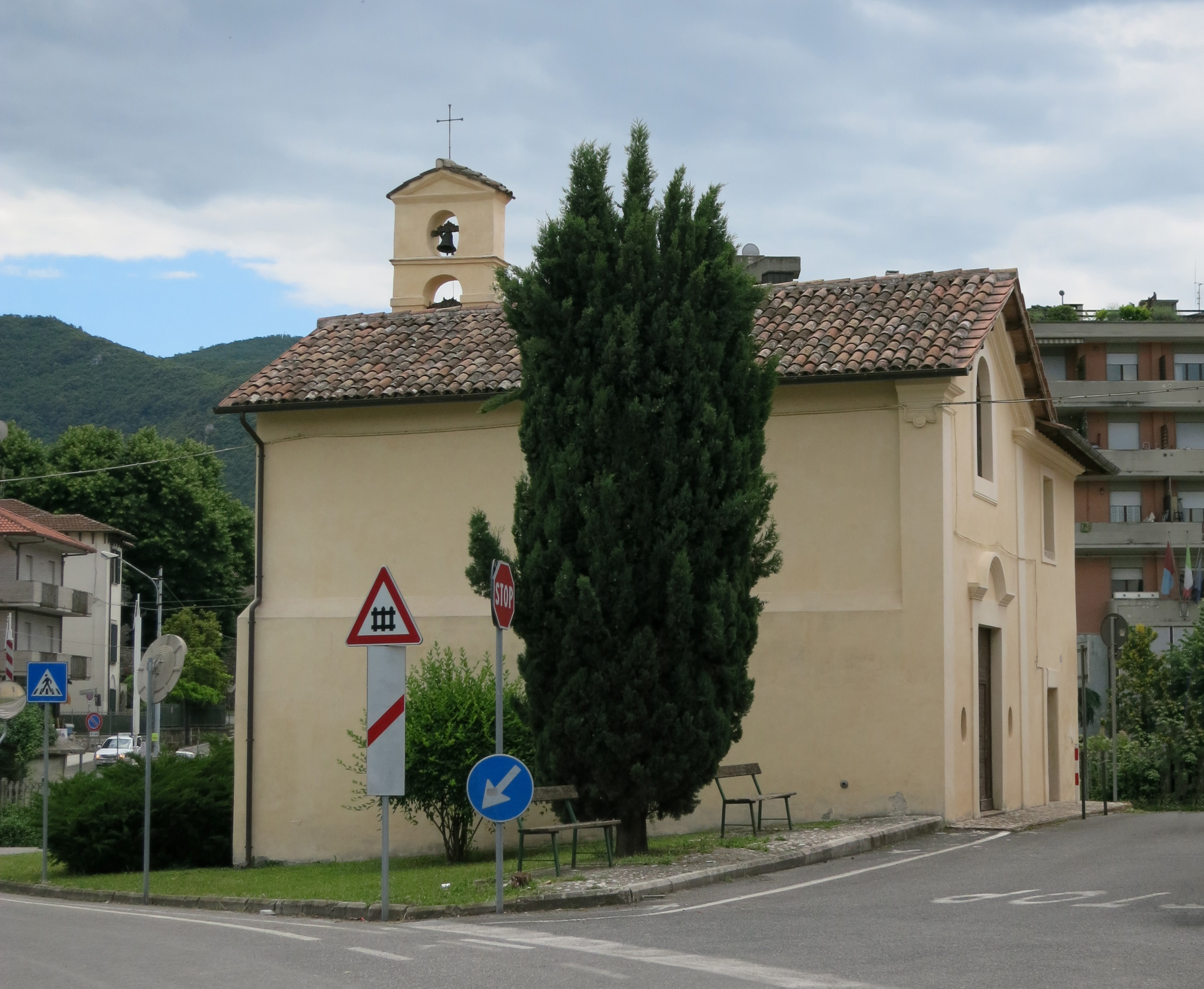 Our Lady of the Orchard church. Angelo Maria Ricci street, Rieti, Lazio, Italy